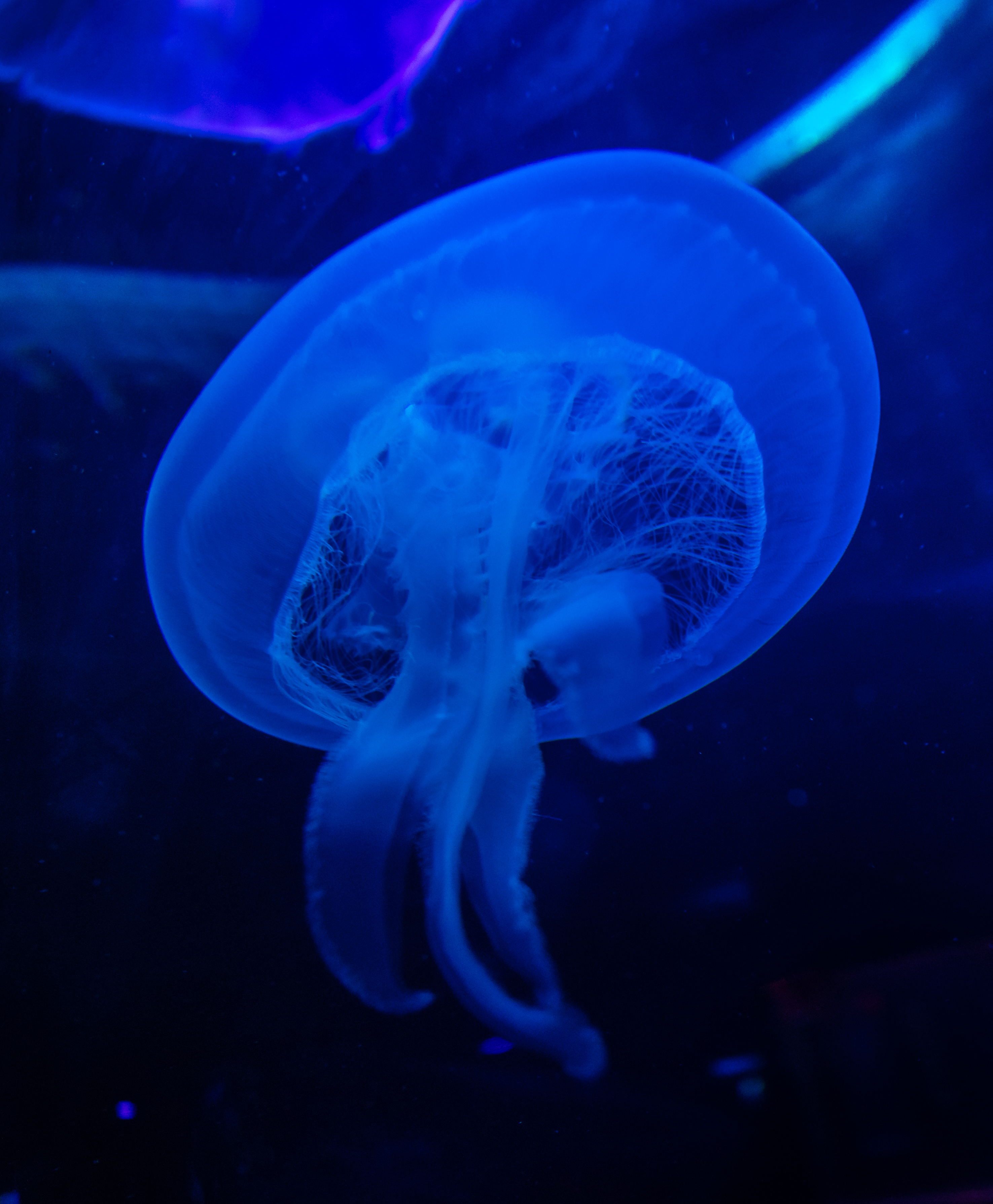 Common jellyfish (Aurelia aurita), Cape Town Aquarium, South Africa